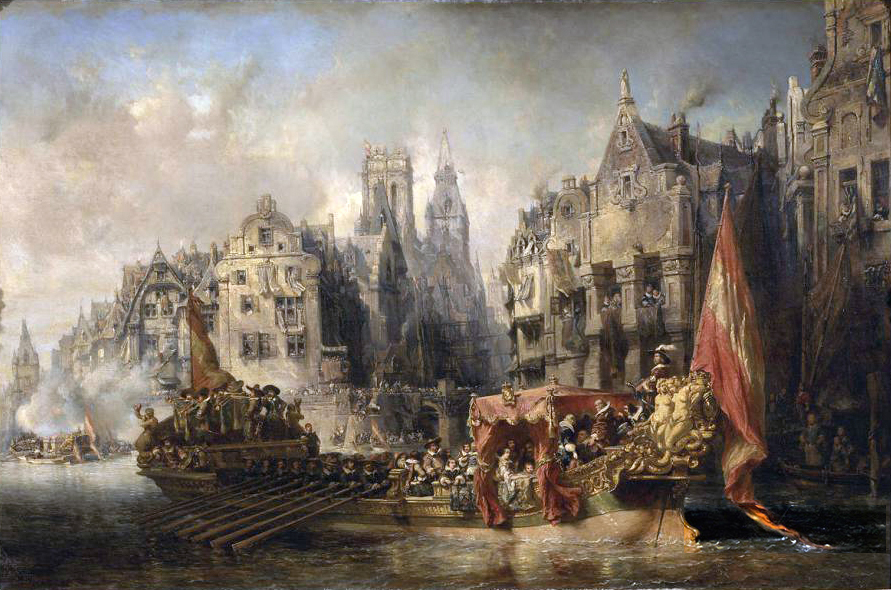 Eugene Isabey, 1844 Arrival of the Duke of Alba at Rotterdam in 1567 Musee d'Orsay, Paris